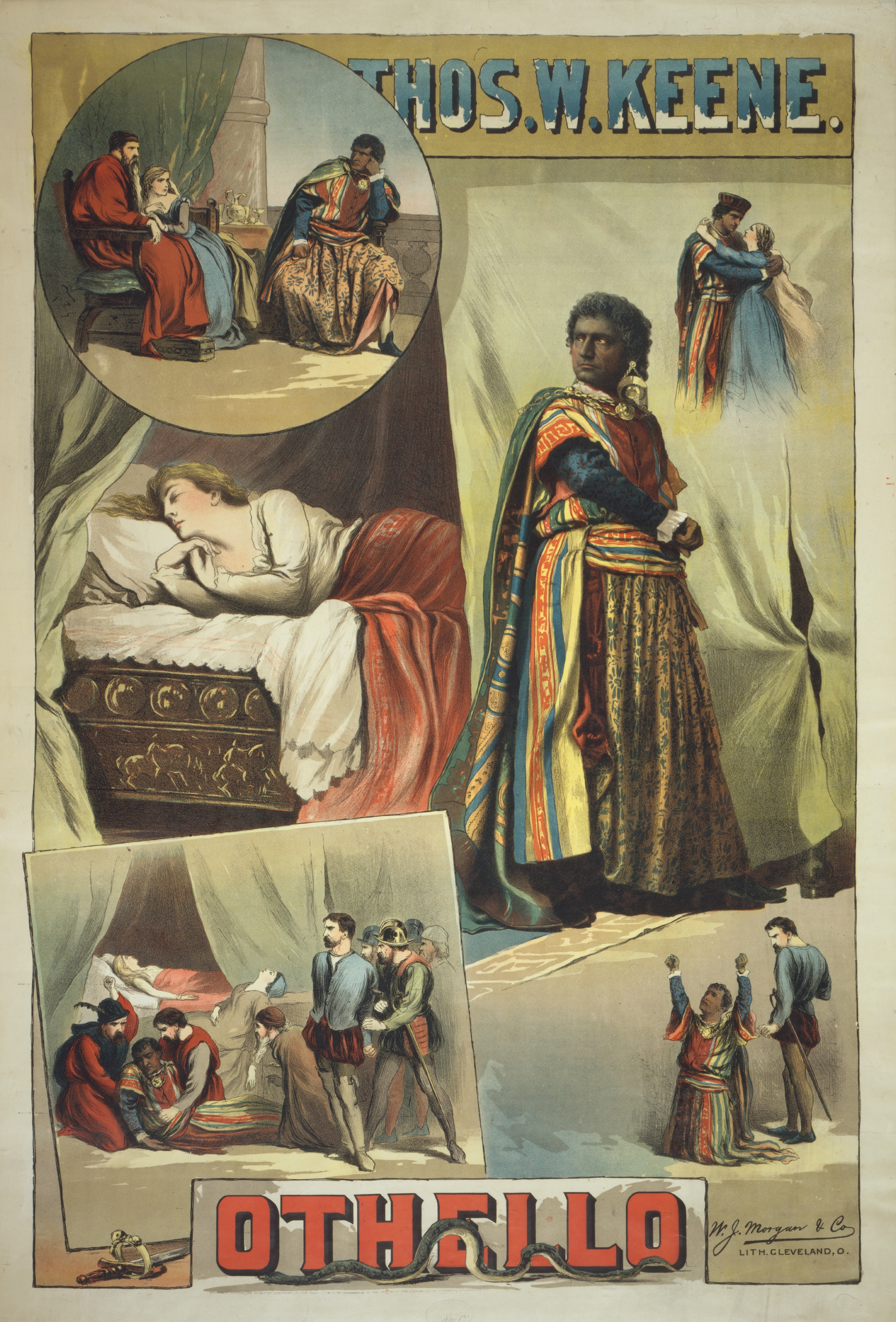 From the Library of Congress: TITLE: Thos. W. Keene. Othello CALL NUMBER: POS - TH - 1884 .O7, no. 1 (C size) [P&P] REPRODUCTION NUMBER: LC-USZC6-58 (color film copy transparency) RIGHTS INFORMATION: No known restrictions on publication. MEDIUM: 1 print (poster) : lithograph, color ; 104 x 69 cm. CREATED/PUBLISHED: Cleveland, O. : W.J. Morgan & Co. Lith., [1884] CREATOR: W.J. Morgan & Co. Lith.